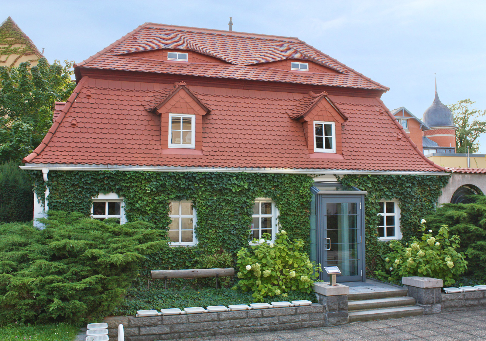 Former Röhrmeisterhaus (German for “pipe master building”) in Kamenz in the district Bautzen in Saxony, Germany.